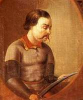 Jakiv Ostranin